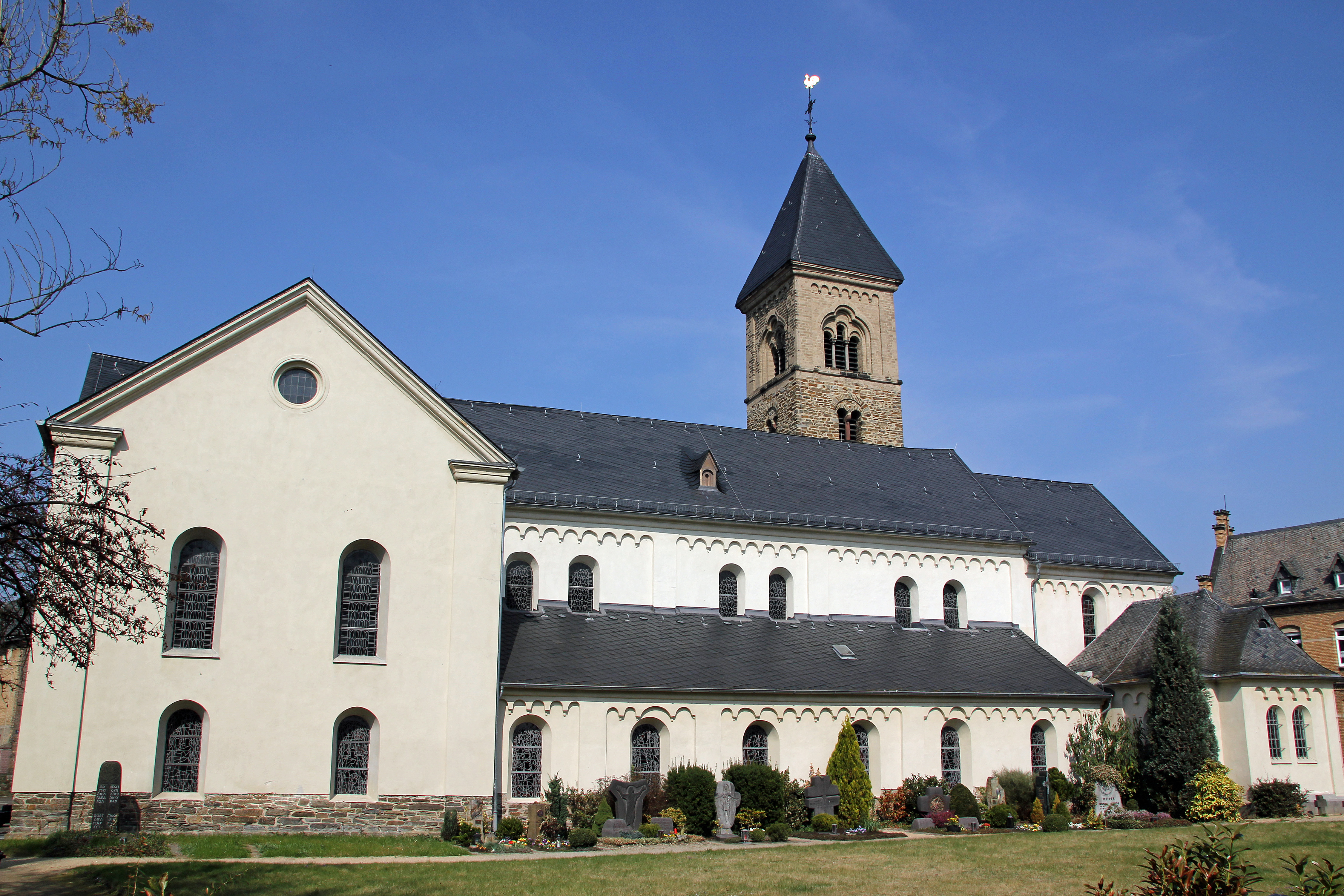 St. Laurentius church in Koblenz